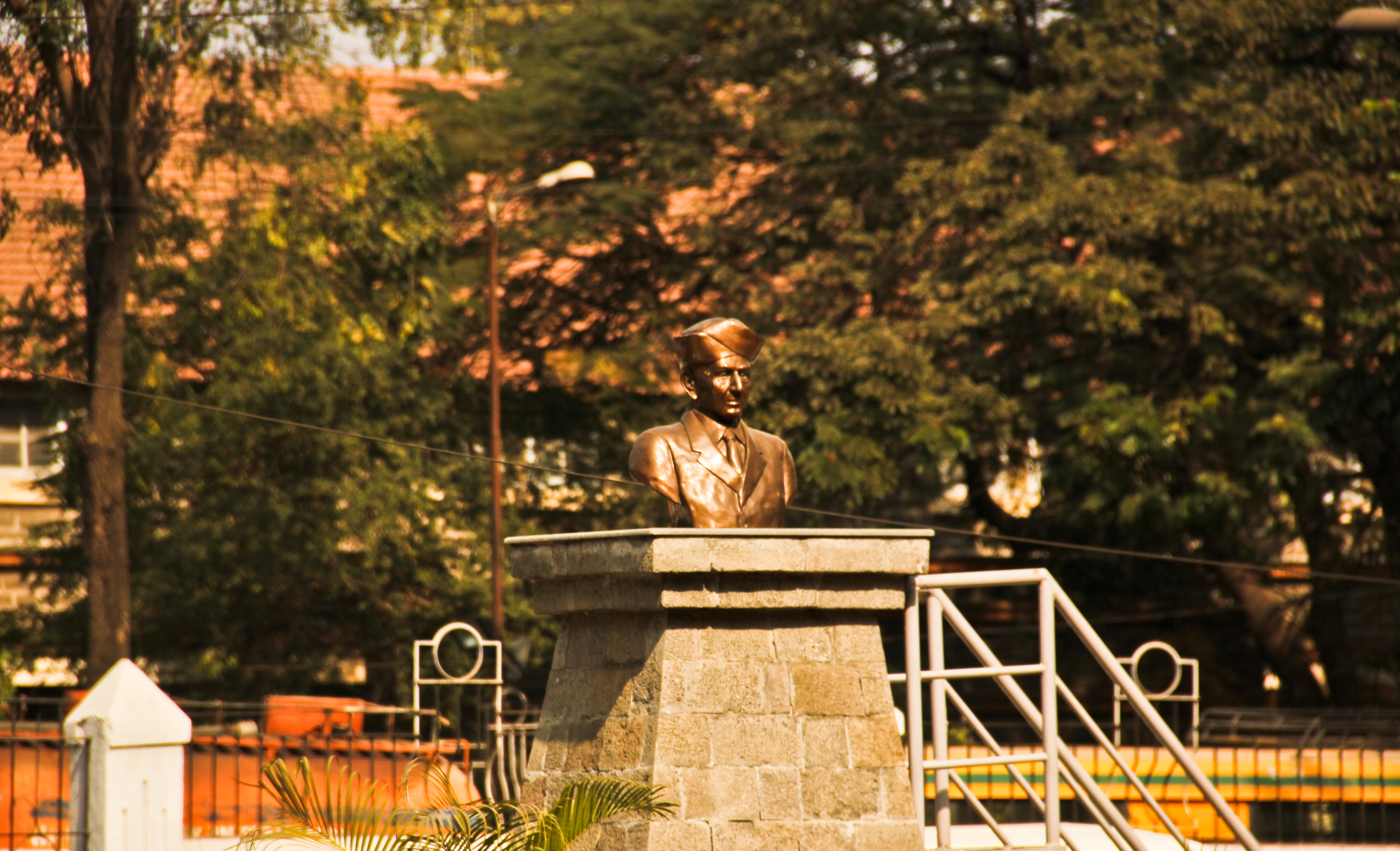 The bust of Sir Visvesvarayya, installed in front of the College's Main building